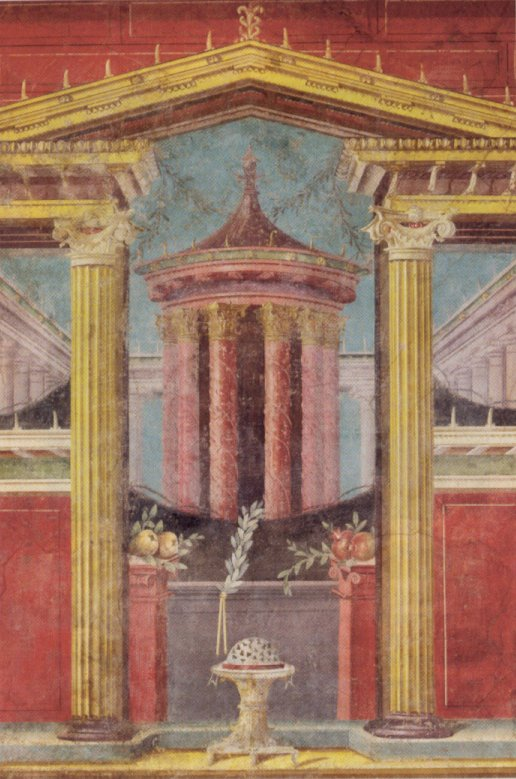 Fresco from the villa of Publio Fannio Sinistore in Boscoreale, currently located in the Metropolitan Museum of Art, New York, 43-30 BCE.